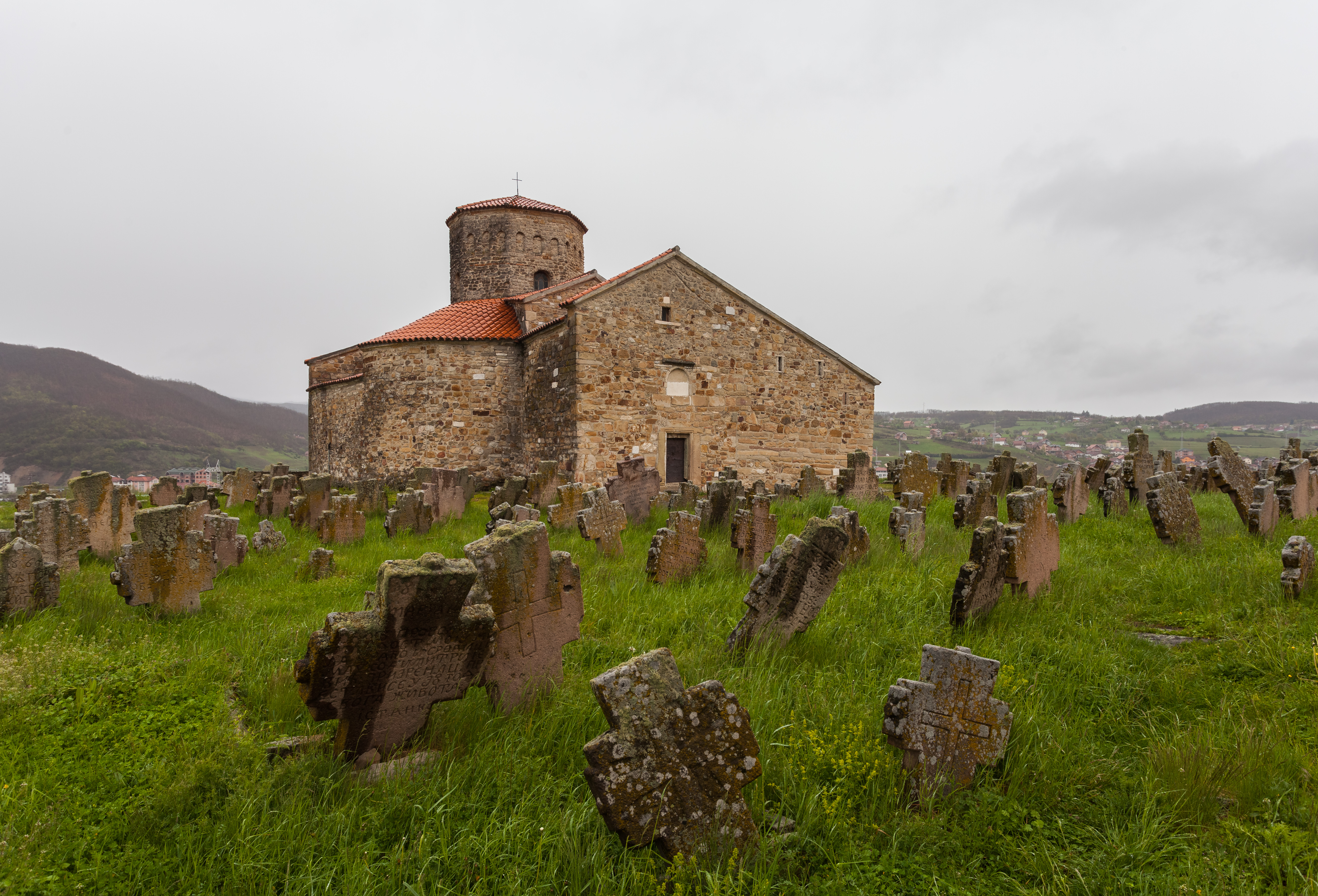 Church of St Peter, Novi Pazar, Serbia